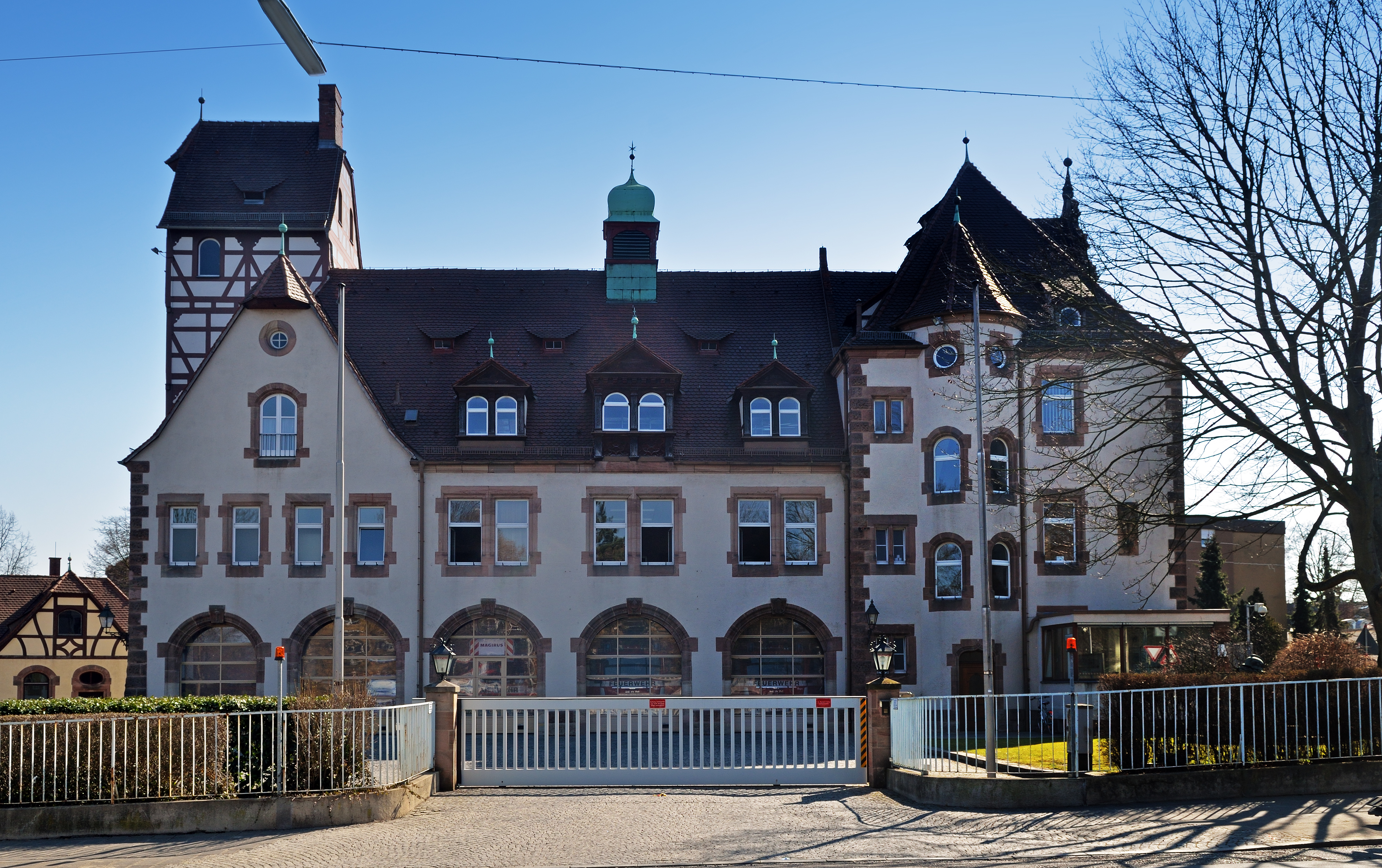 the fire station west in Nuremberg